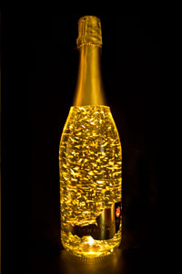 Inführ Sekt - Österreich Gold